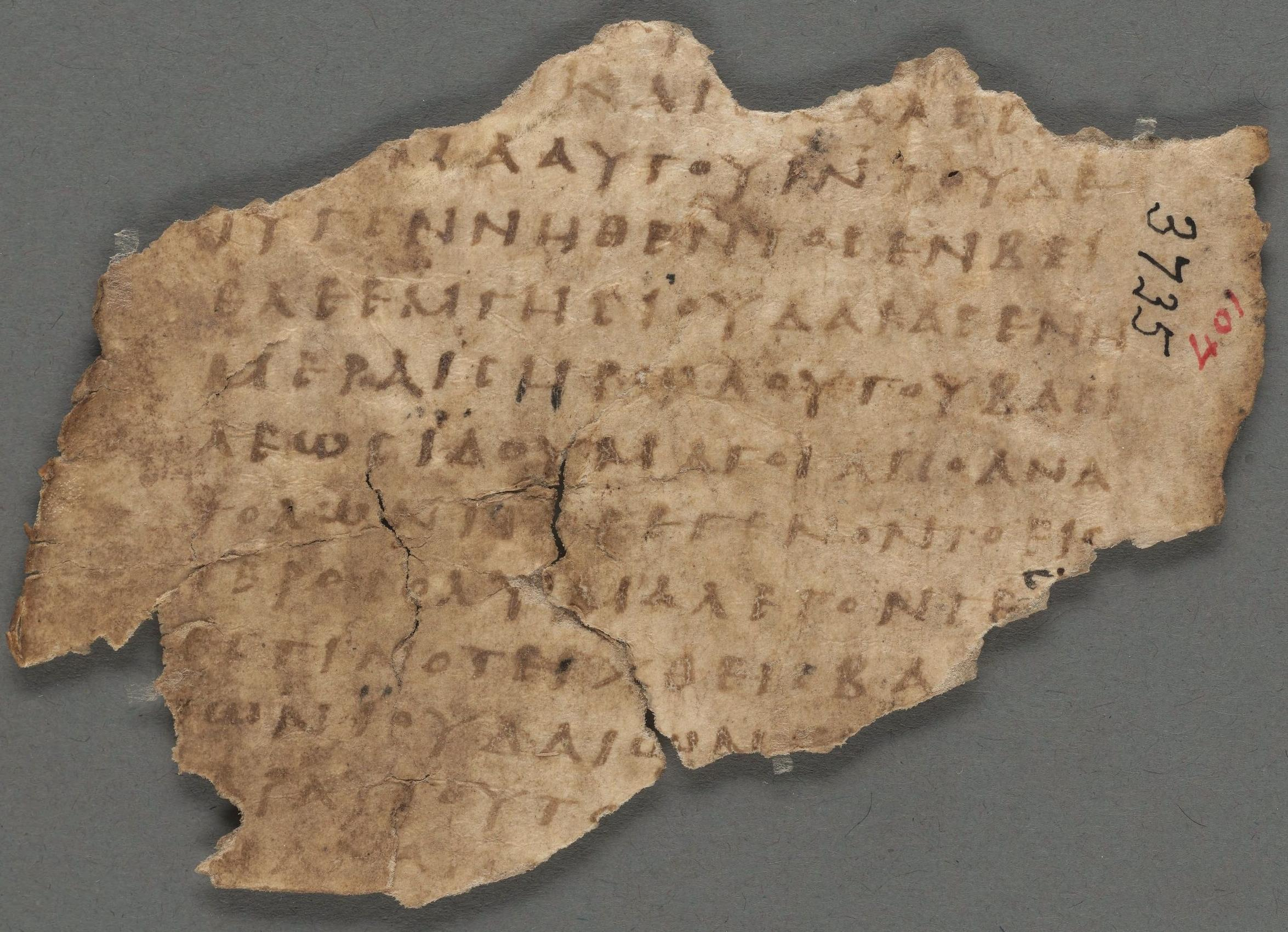 fragment of the Gospel of Matthew